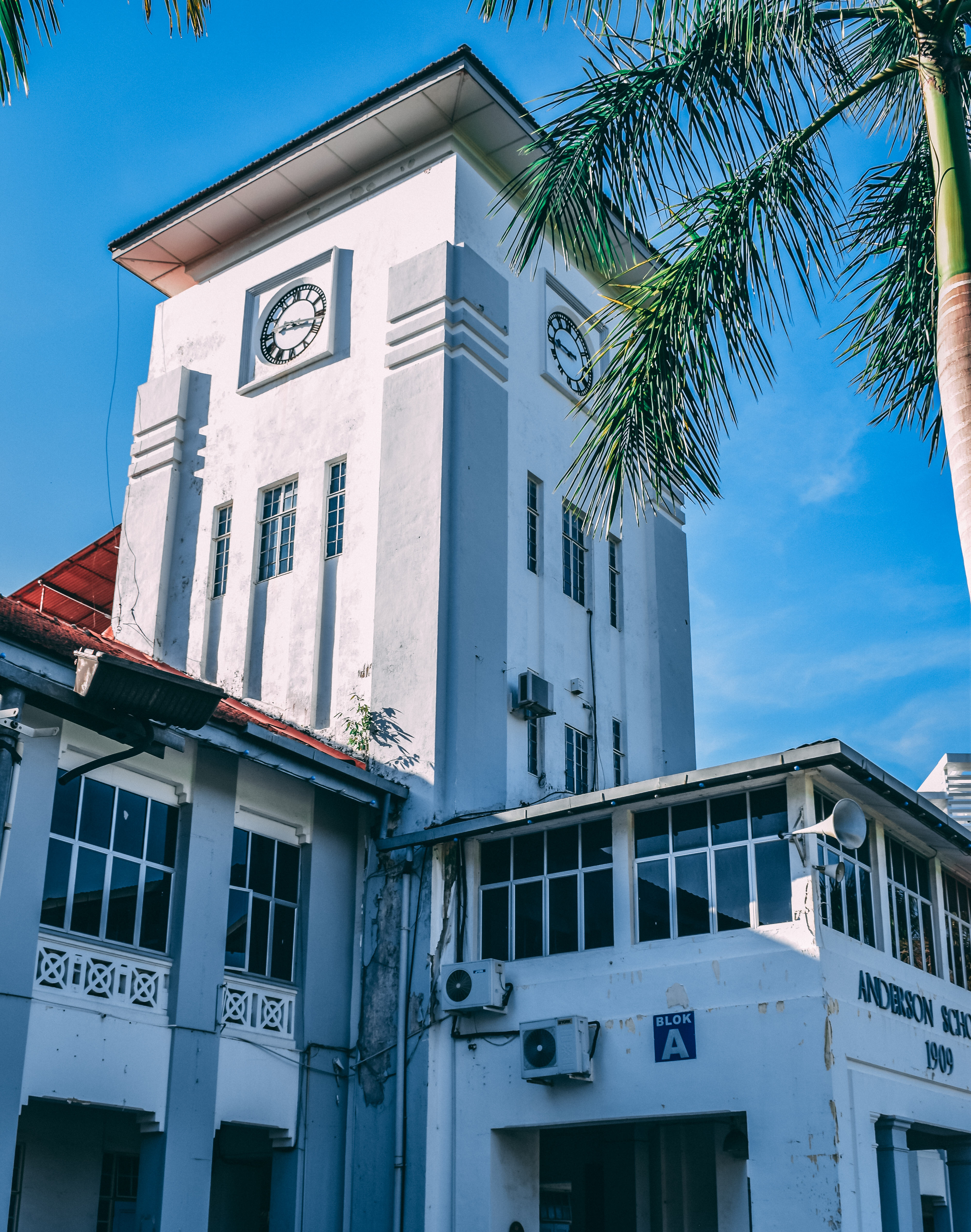 SMK Anderson's building which is over 103 years